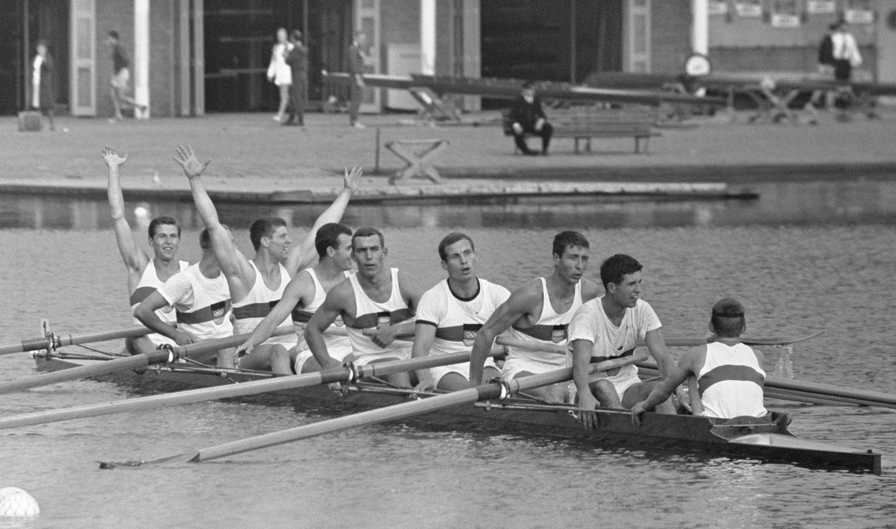 European rowing championships Bosbaan, German eight: Horst Meyer, Jürgen Plagemann, Jürgen Schroeder, Klaus Behrens, Hans-Jürgen Wallbrecht, Karl-Heinrich von Groddeck, Klaus Bittner, Klaus Aeffke and Thomas Ahrens